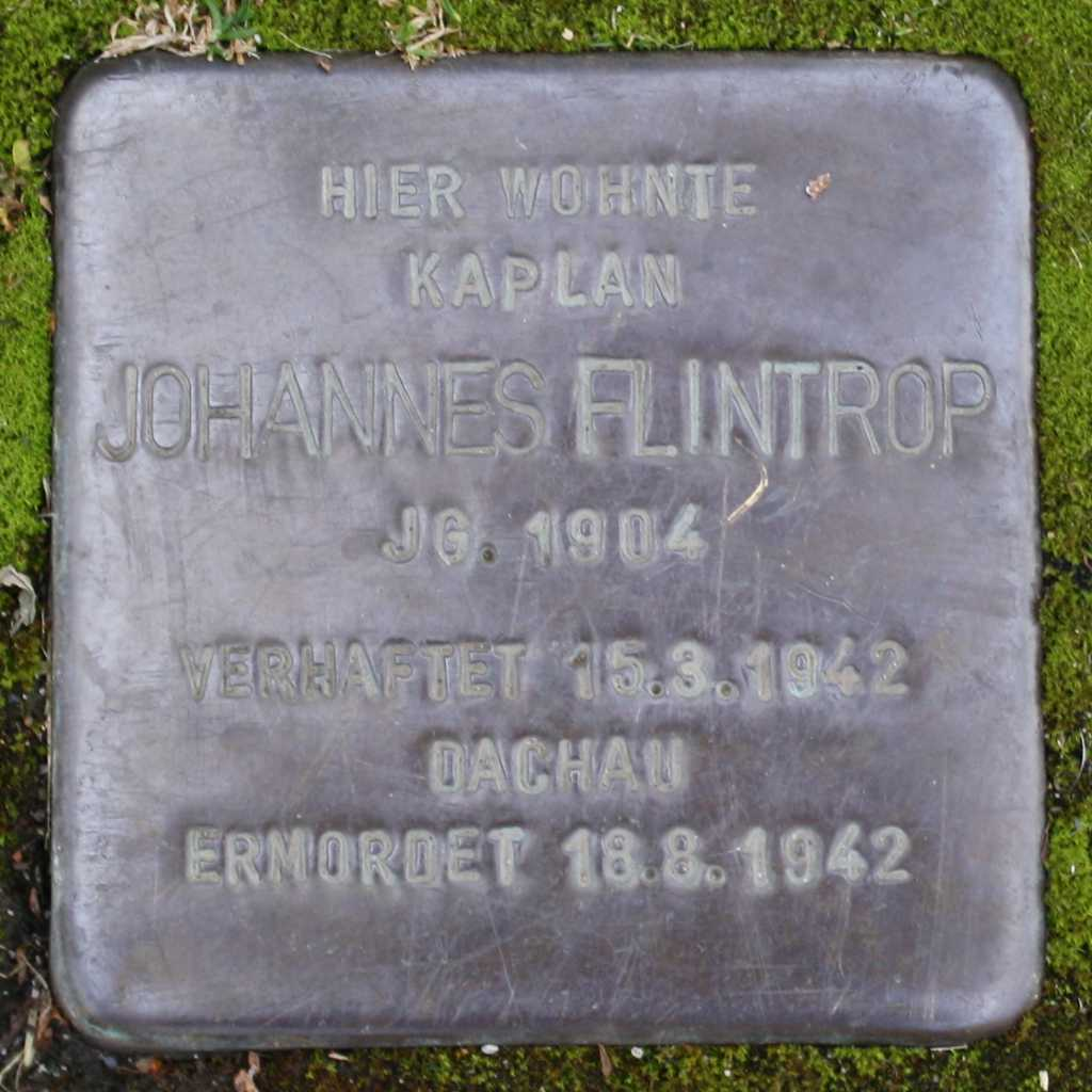 "Stolperstein" (stumbling block), Johannes Flintrop, Wuppertal, Meisenstraße 22 Germany